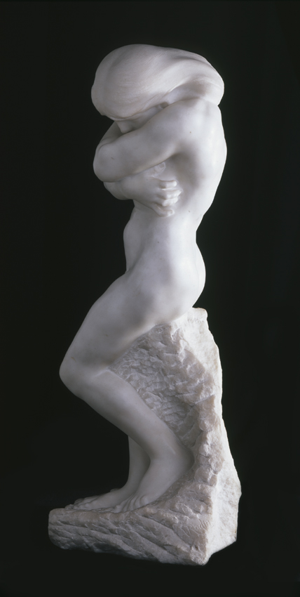 Depicted person: Eve